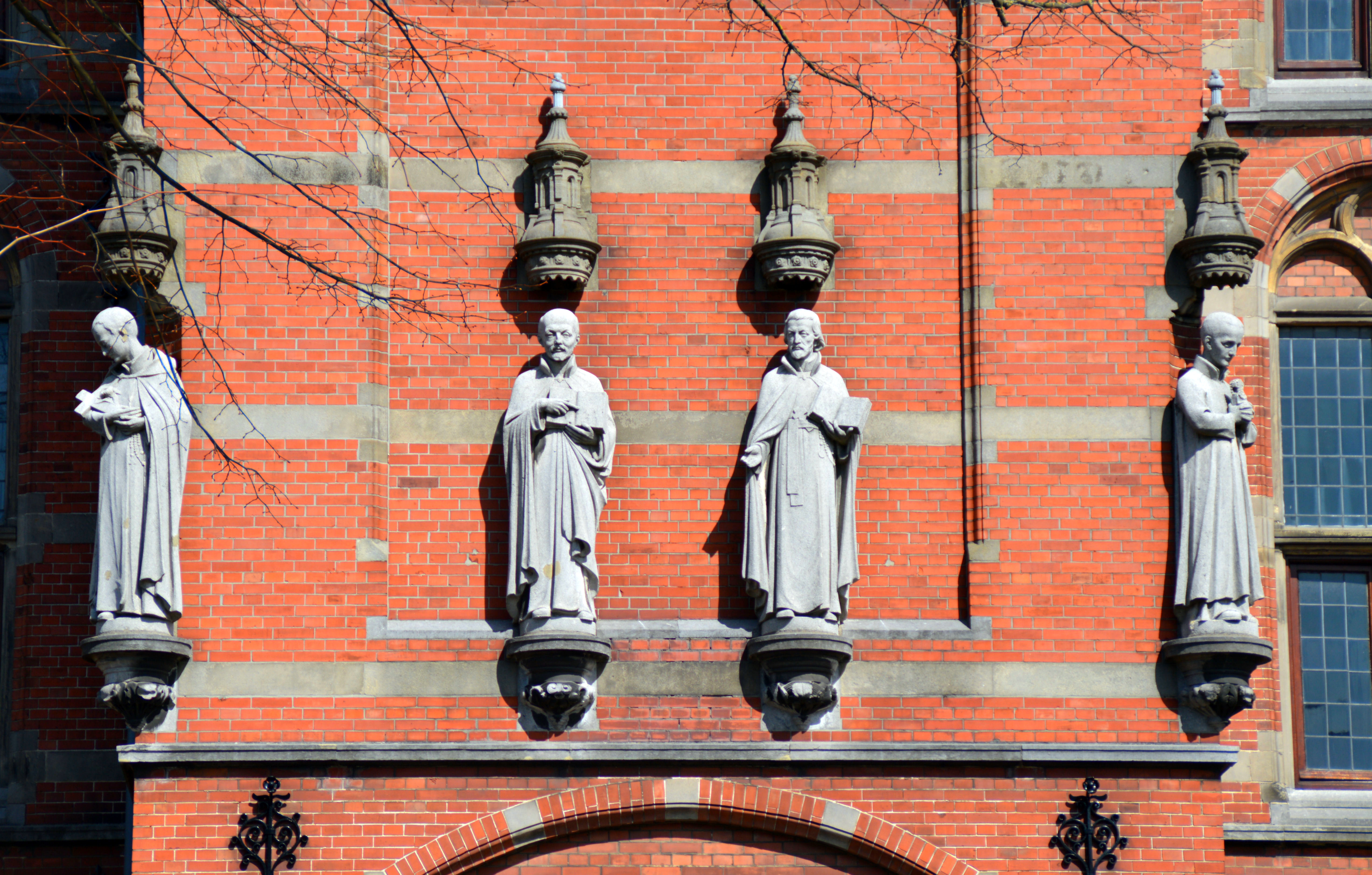 Canisius College (boarding) Nijmegen Nicolaas Molenaar sculptures made by Egidius Everaerts of the four Jesuits (Saint Ignatius, Saint Aloysius Conzaga, Saint Francis Borgia and Saint Stanislaus Kostka 1925